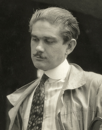 Silent film cameraman George W. Hill in 1917.